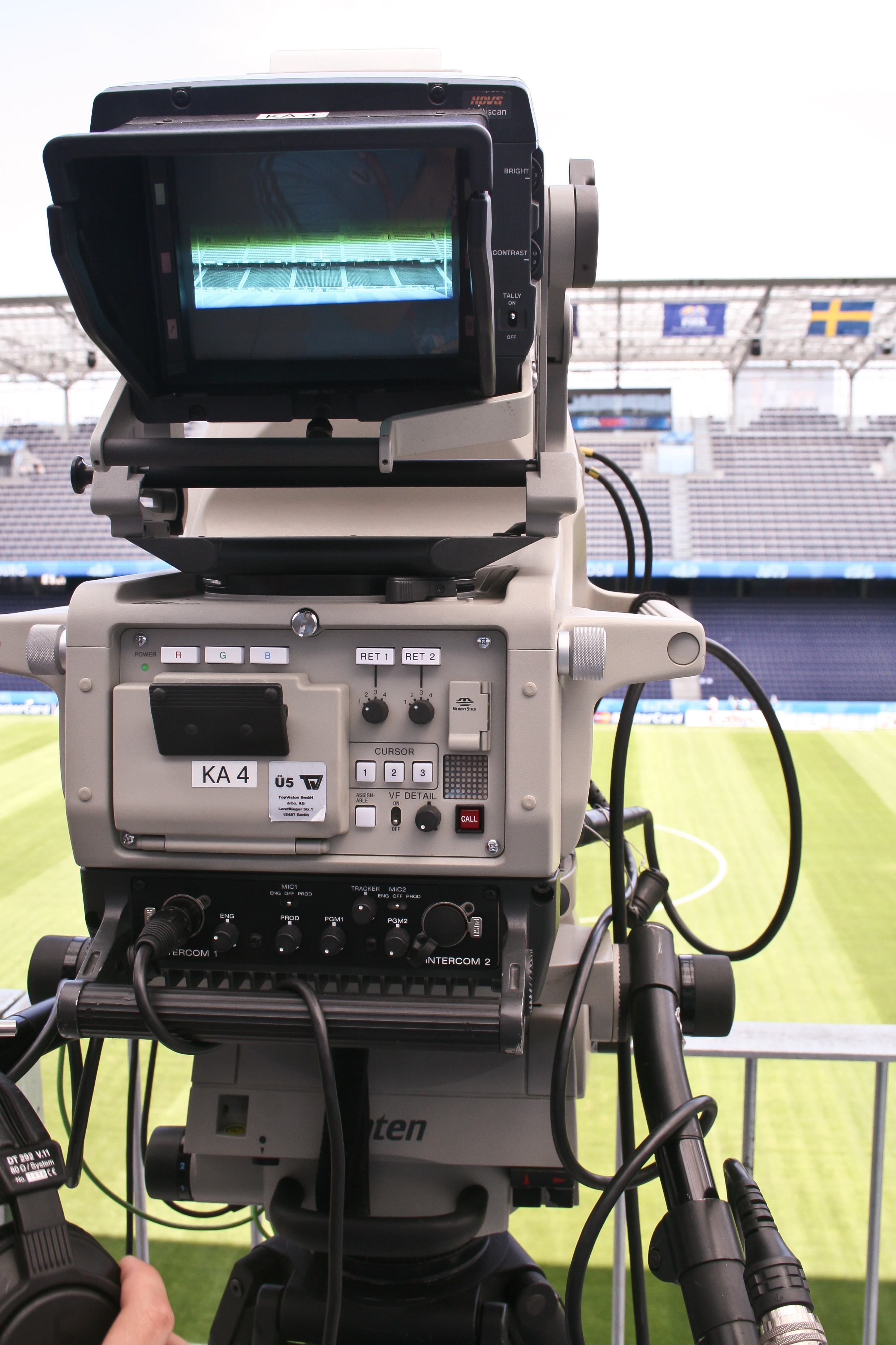 TV broadcasting in Salzburg during UEFA Euro 2008